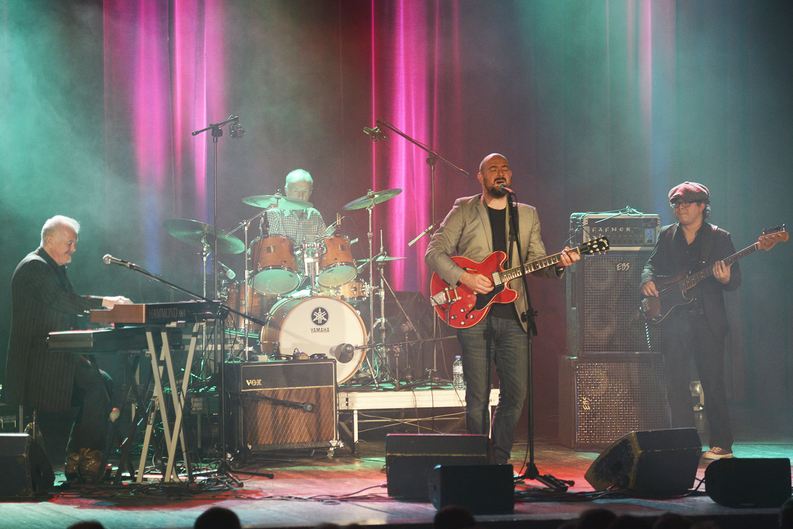 Concert photography: The Animals group, Bielsko-Biala, Poland 2016